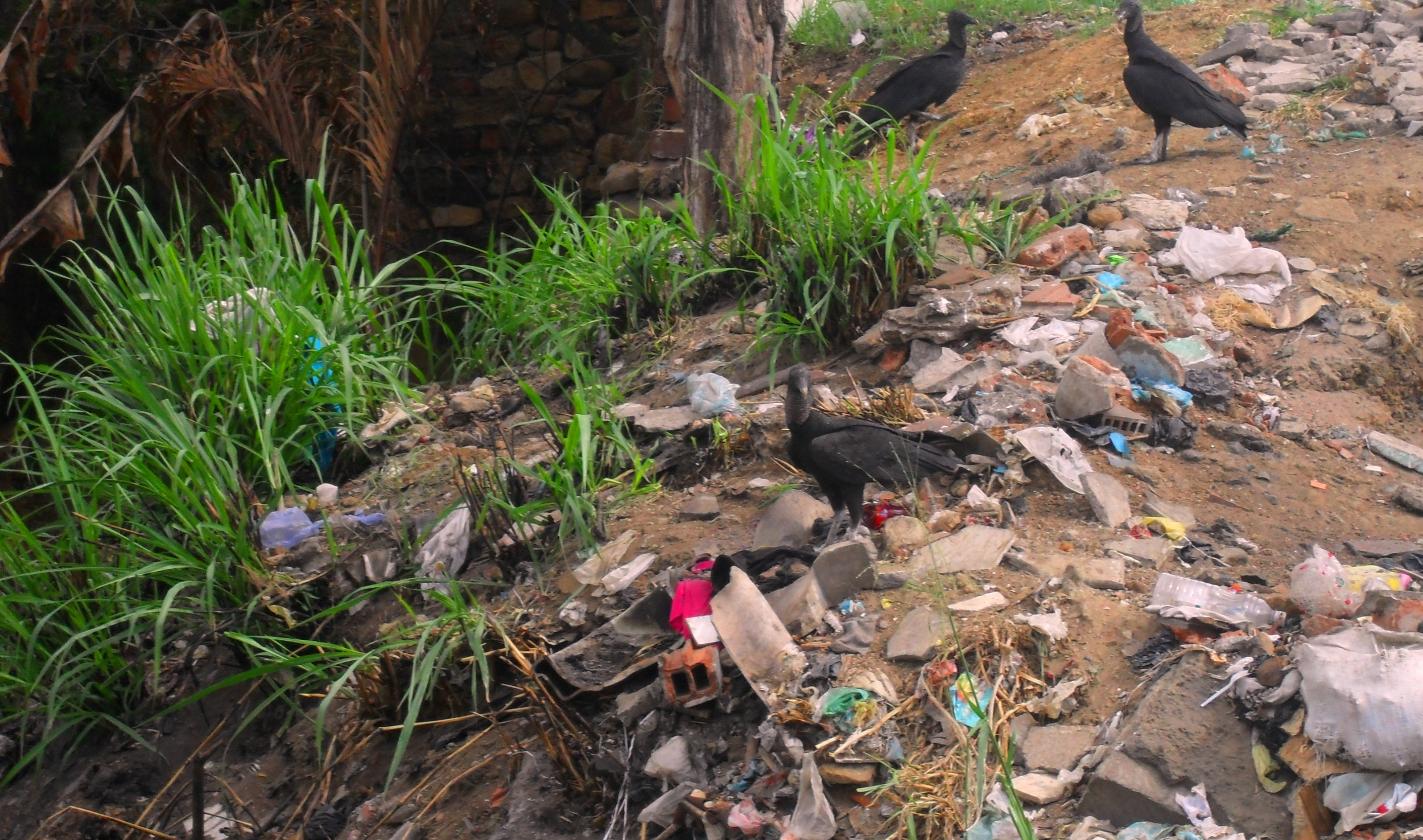 American black vultures in the city ,northeaster of Colombia.